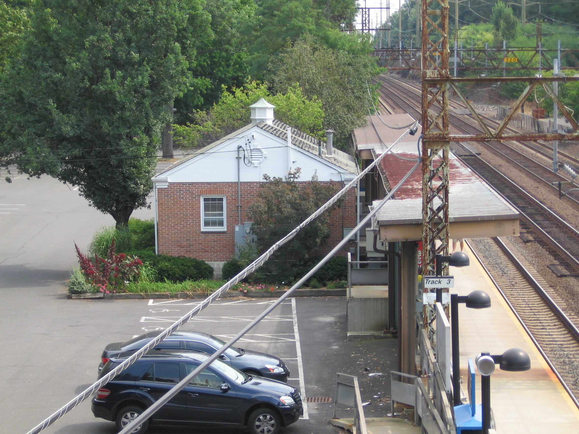 View from bridge of Riverside Railroad Station in the Riverside section of Greenwich, Connecticut.